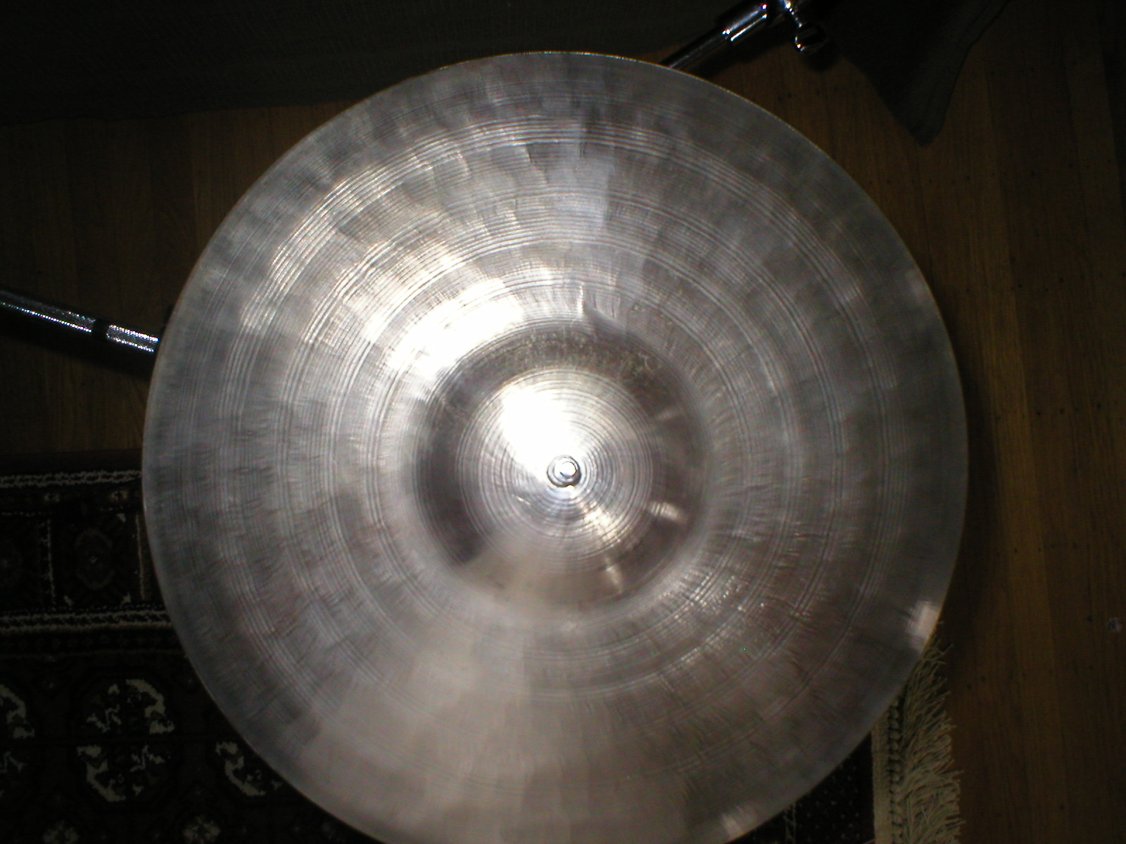 Zanchi brand cymbal. my own photo